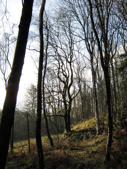 Winter silhouettes The low winter sun has thrown these trees in Lower Lady Park Wood into a lovely silhouette, the Oak in the centre especially stands out.